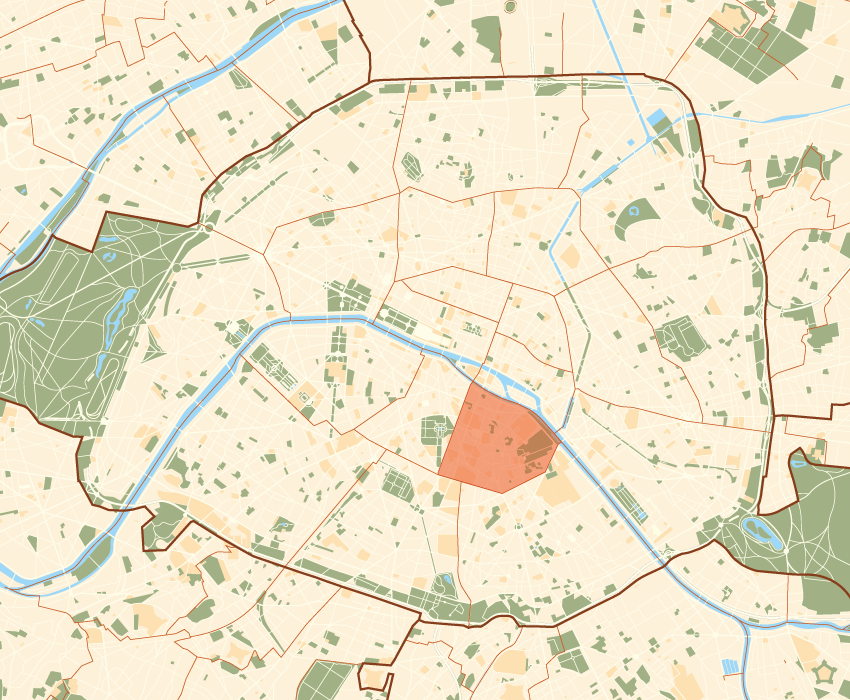 Plan by ThePromenader (own work)